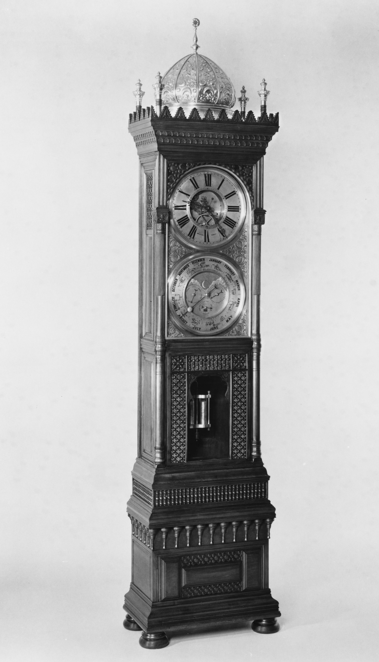 American; Tall clock; Furniture